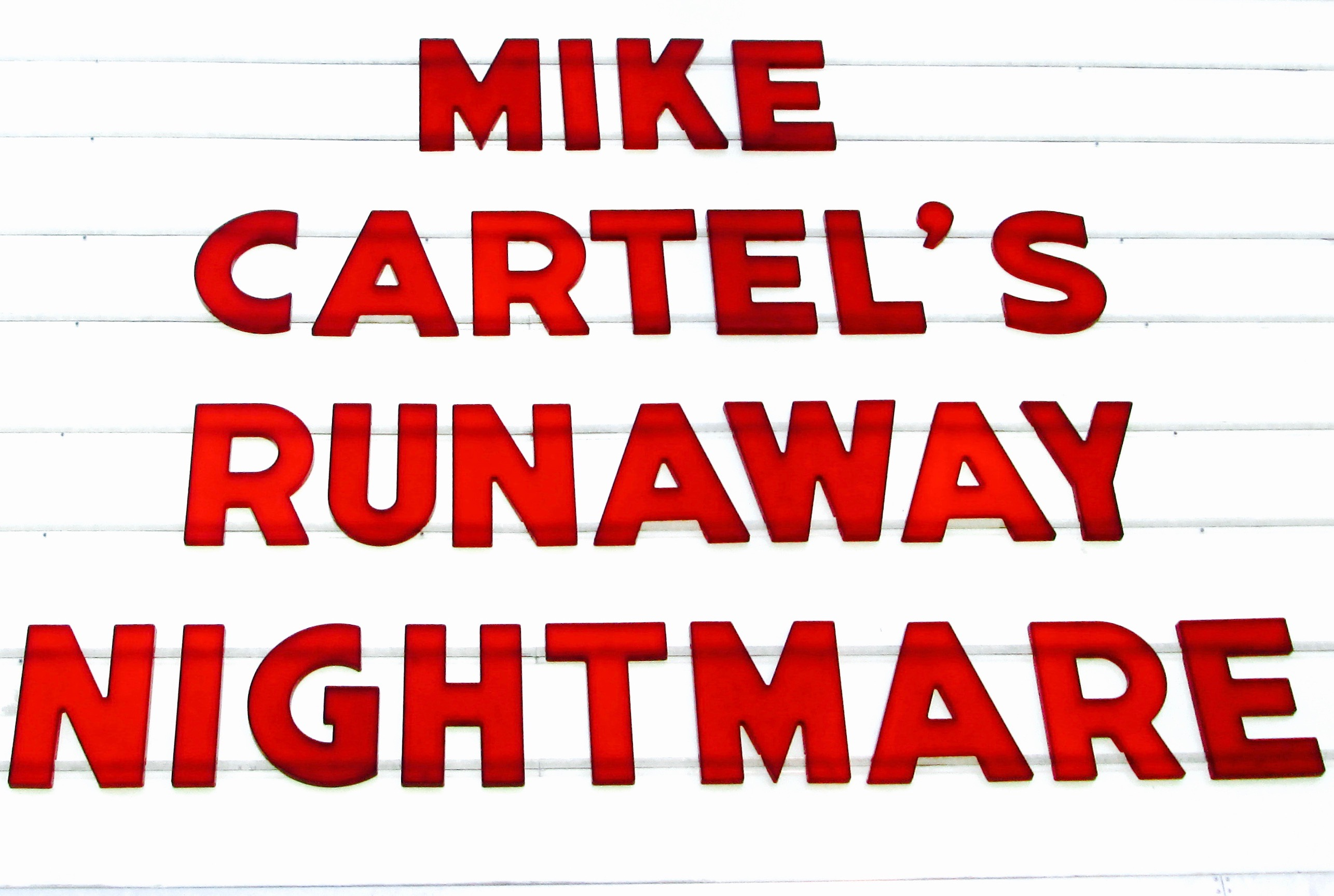 Movie marquee frontage of a Los Angeles theater for the premiere of Runaway Nightmare.